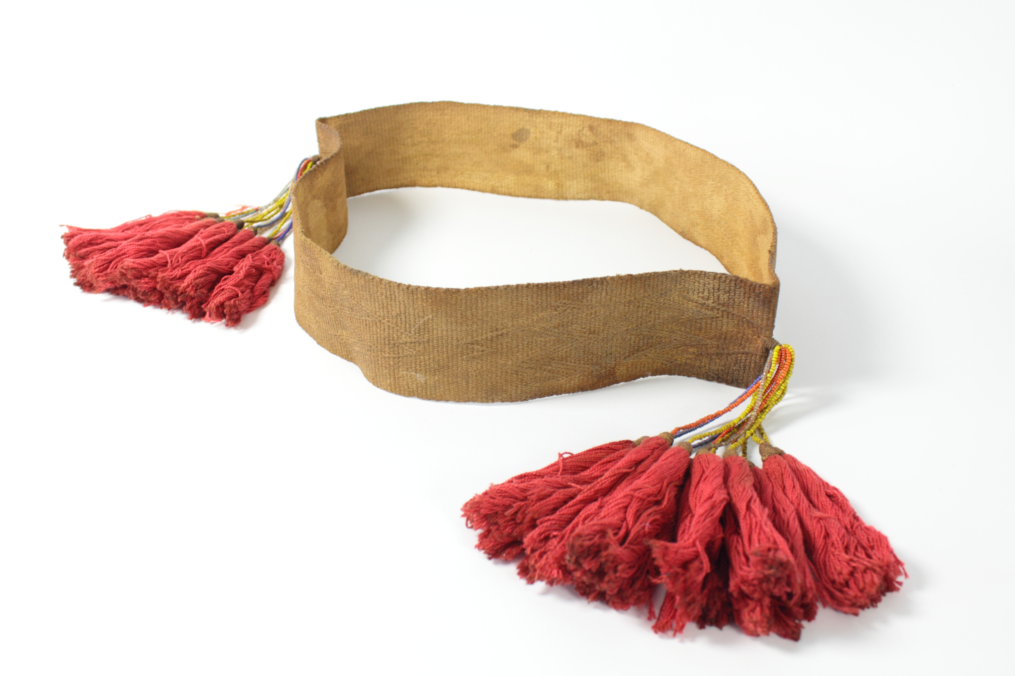 singer's sash of the Canela